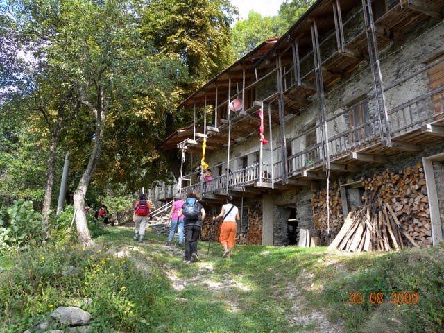 Rural house along the Ormea's Balconata